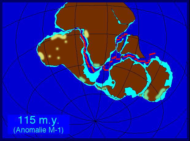 A modification of the map by Hannes Grobe Map posted at The map has the gondwanan distribution of the onycophora superimposed on it, based on information taken from The green and yellow in this image represent the two families of onychophora (= velvet worms). The modern locations of these families reflect the locations of their fossils on the old Gondwanan super continent .